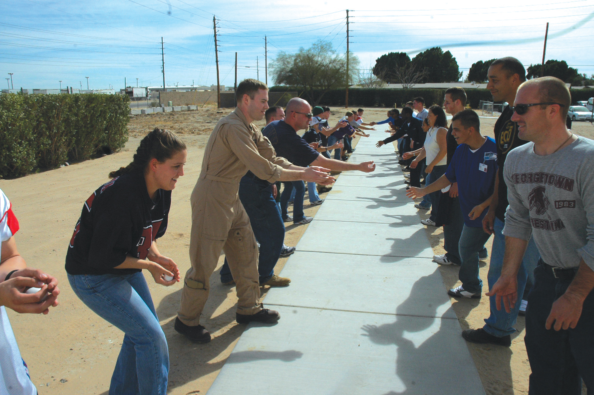 Sailors from the Branch Medical Clinic play a game called �toss the egg� involving pairs of contestants who throw an egg back and fourth to each other while stepping back after each completed catch as part of the BMC�s 3rd Annual Super Bowl Tailgate party Feb. 2 here.